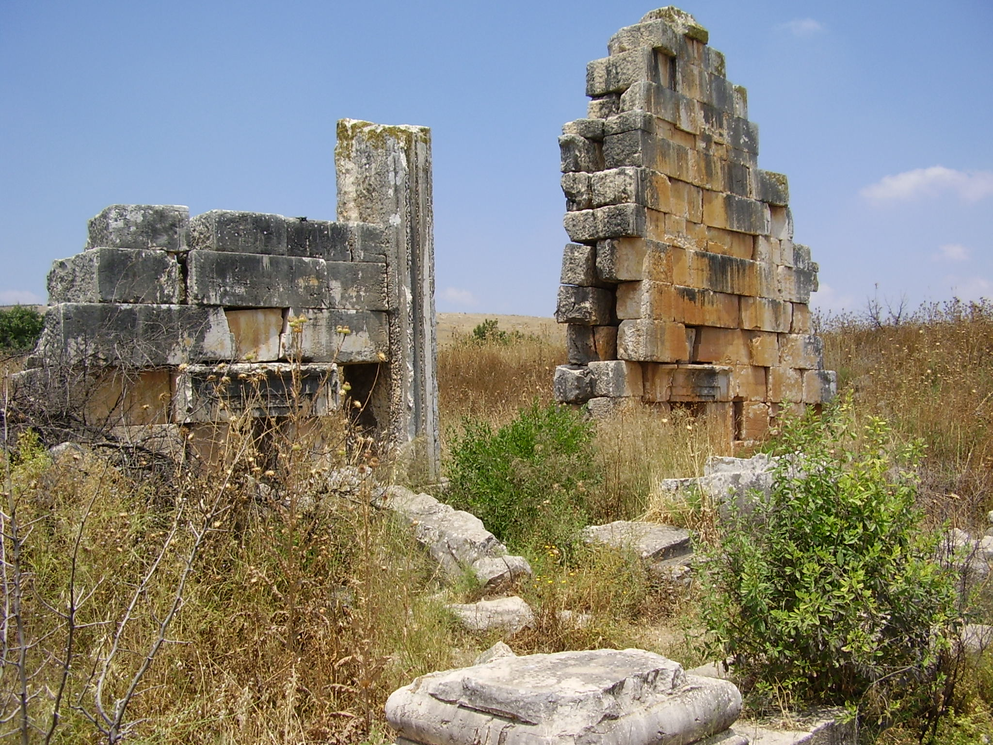 tel kadesh in upper galillee